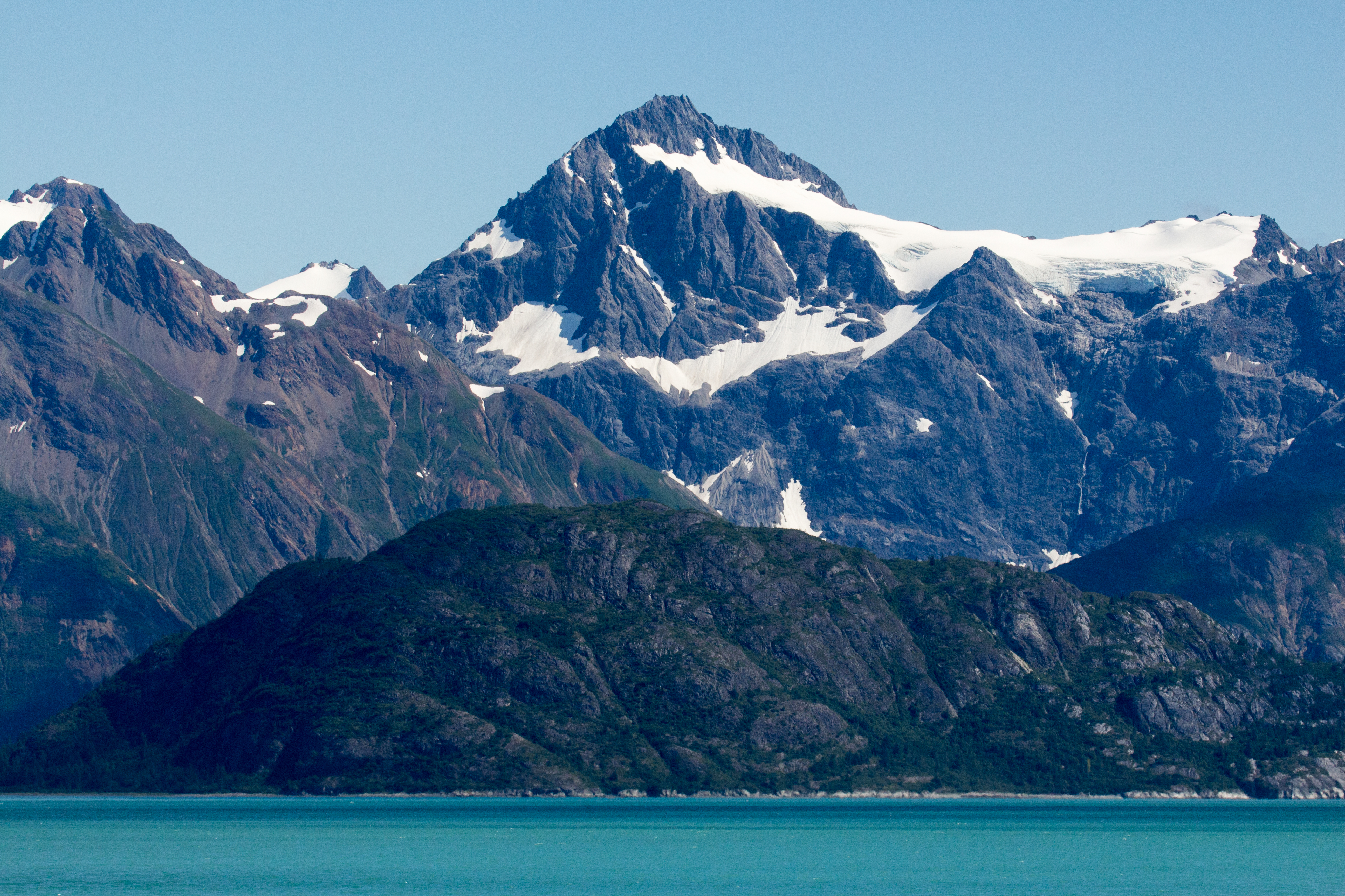 Mount Merriam in Glacier Bay National Park, with Composite Island down in front.